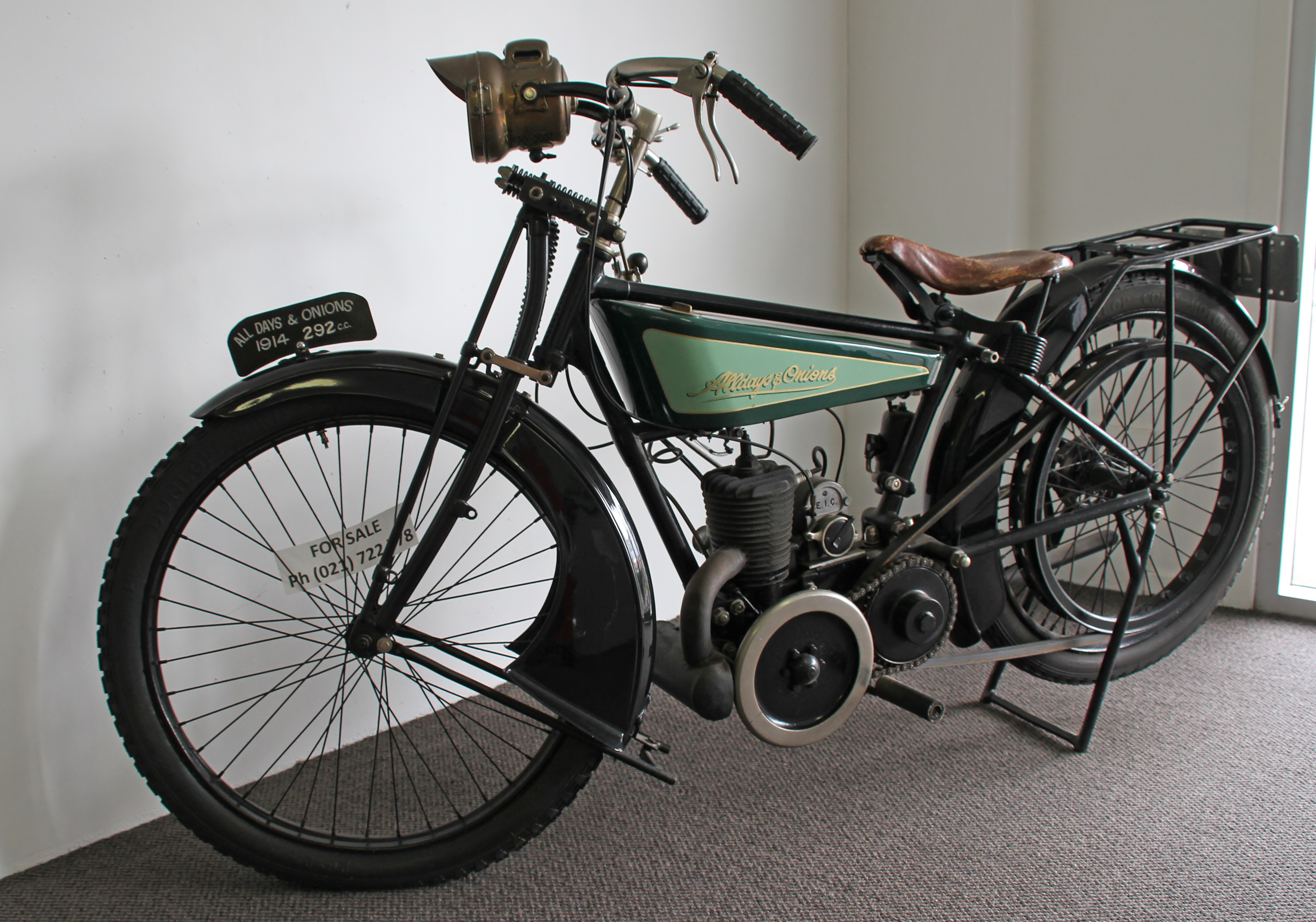 1914 Alldays & Onions 292cc